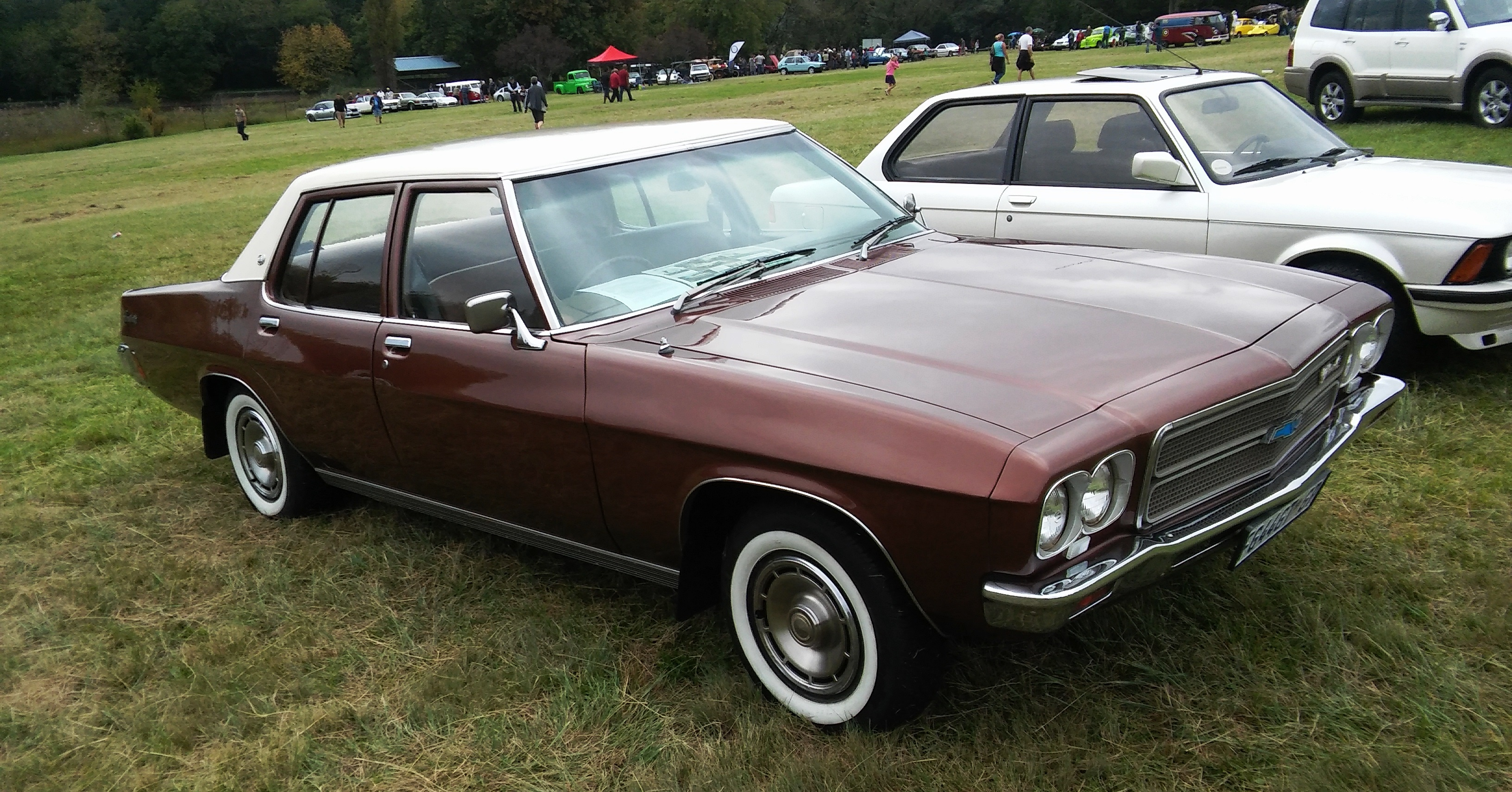 Chevrolet 1972-75 Constantia Six